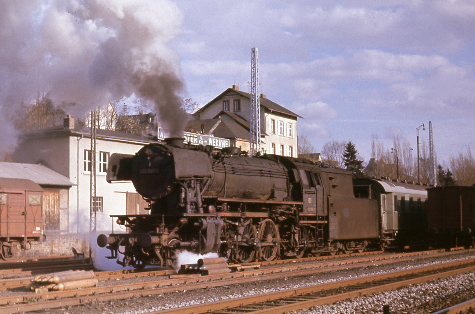 A class 023 (engine 23 035) on a passenger train in the Moselle Valley, Easter 1972.